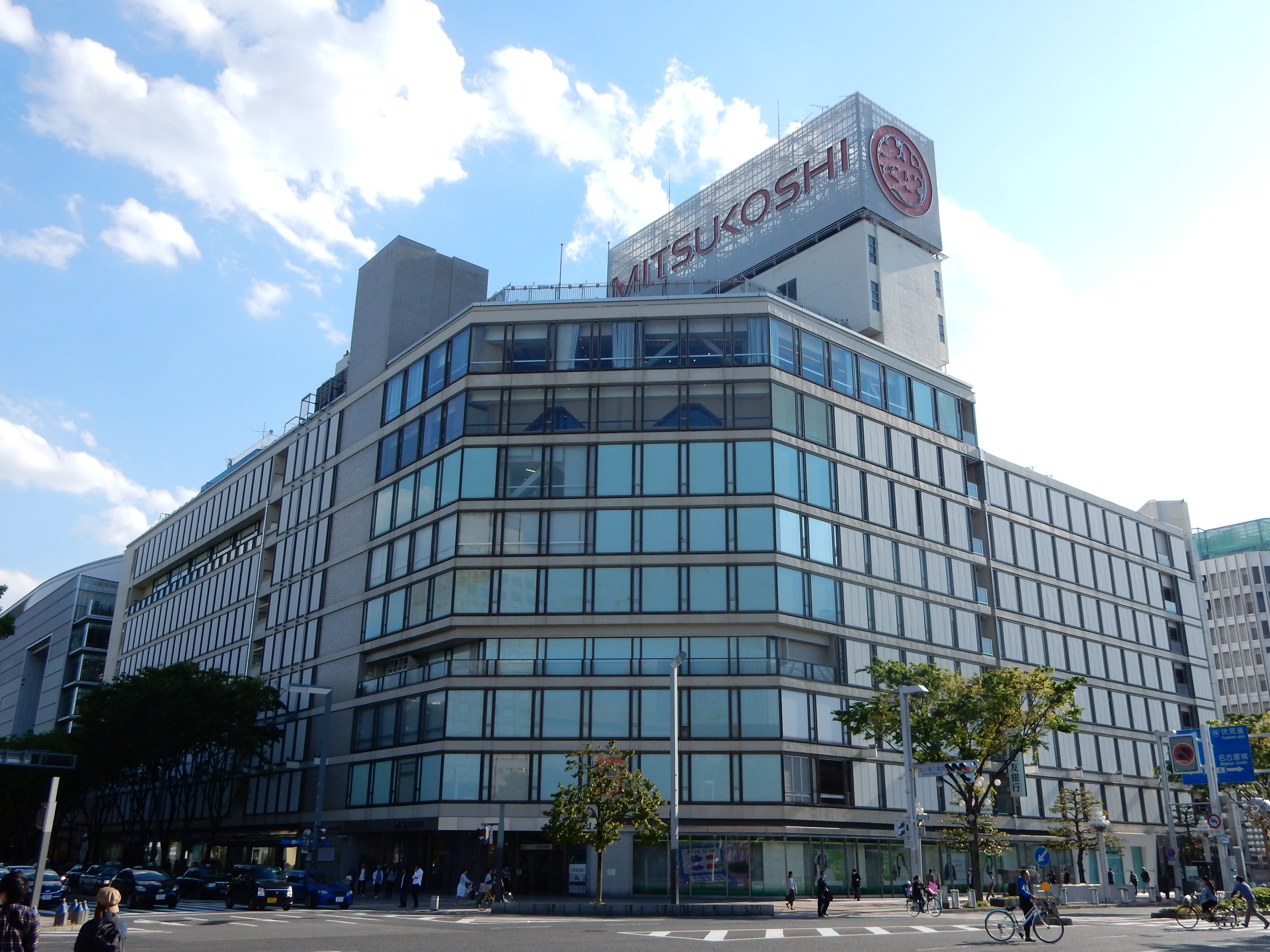 Nagoya Mitsukoshi Sakae Store (名古屋三越栄店), located at 3-5-1 Sakae, Naka, Nagoya, , Japan